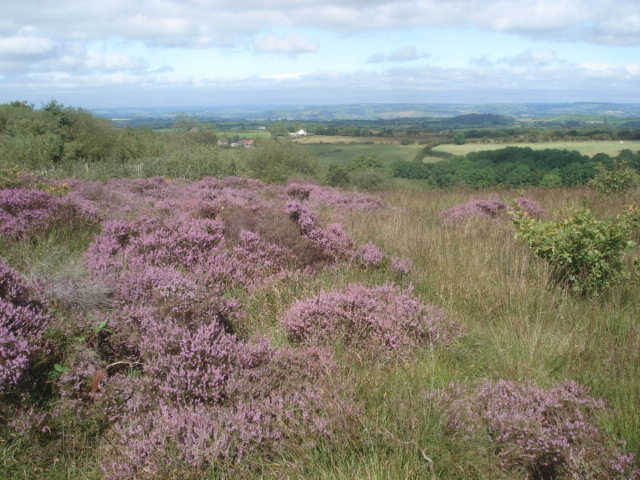 Heathland north of Llyn Llech Owain Looking northwards towards Afon Tywi in the distance. This area has a bird hide just off to the left for viewing rare species.